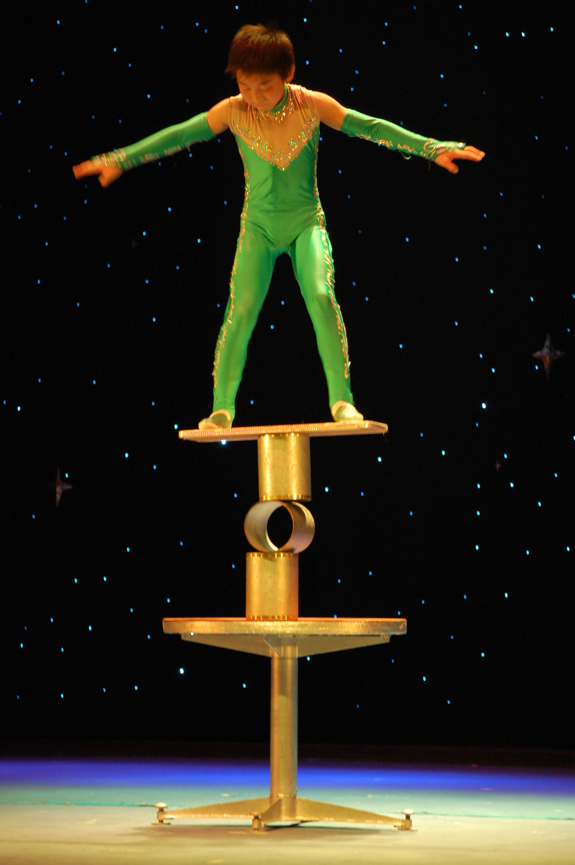 Photographer's description at : Having had a balance board in my apartments for years now, I was really impressed by this act. This kid did many 180's which was a trick that even after years I could only land with a little luck.